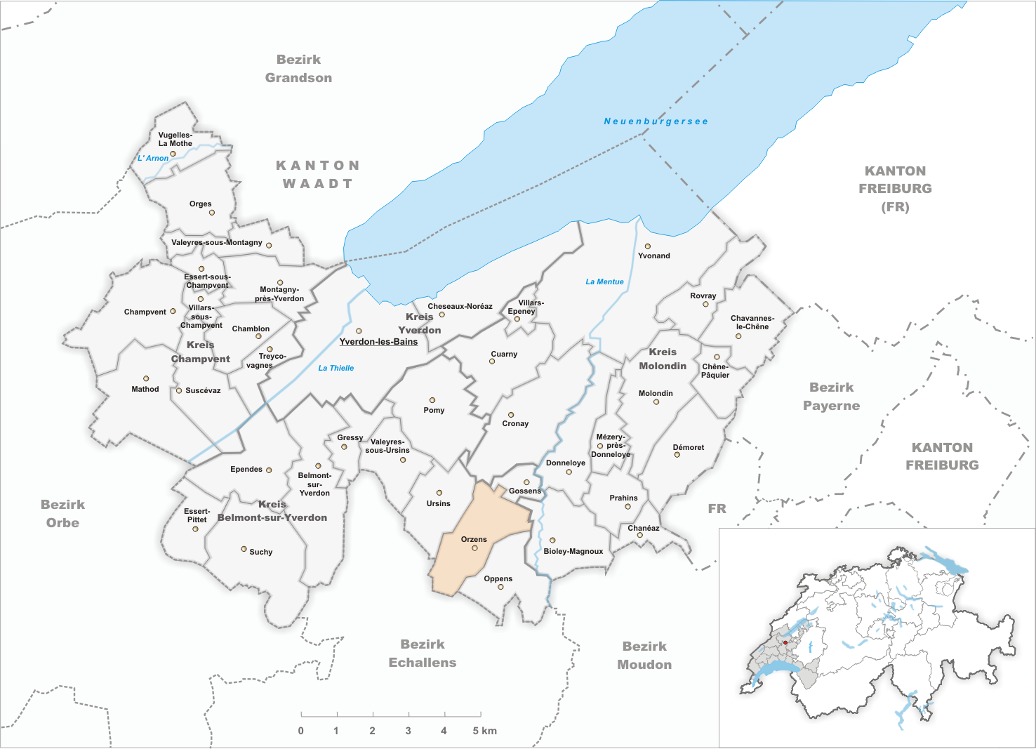 Municipality Orzens